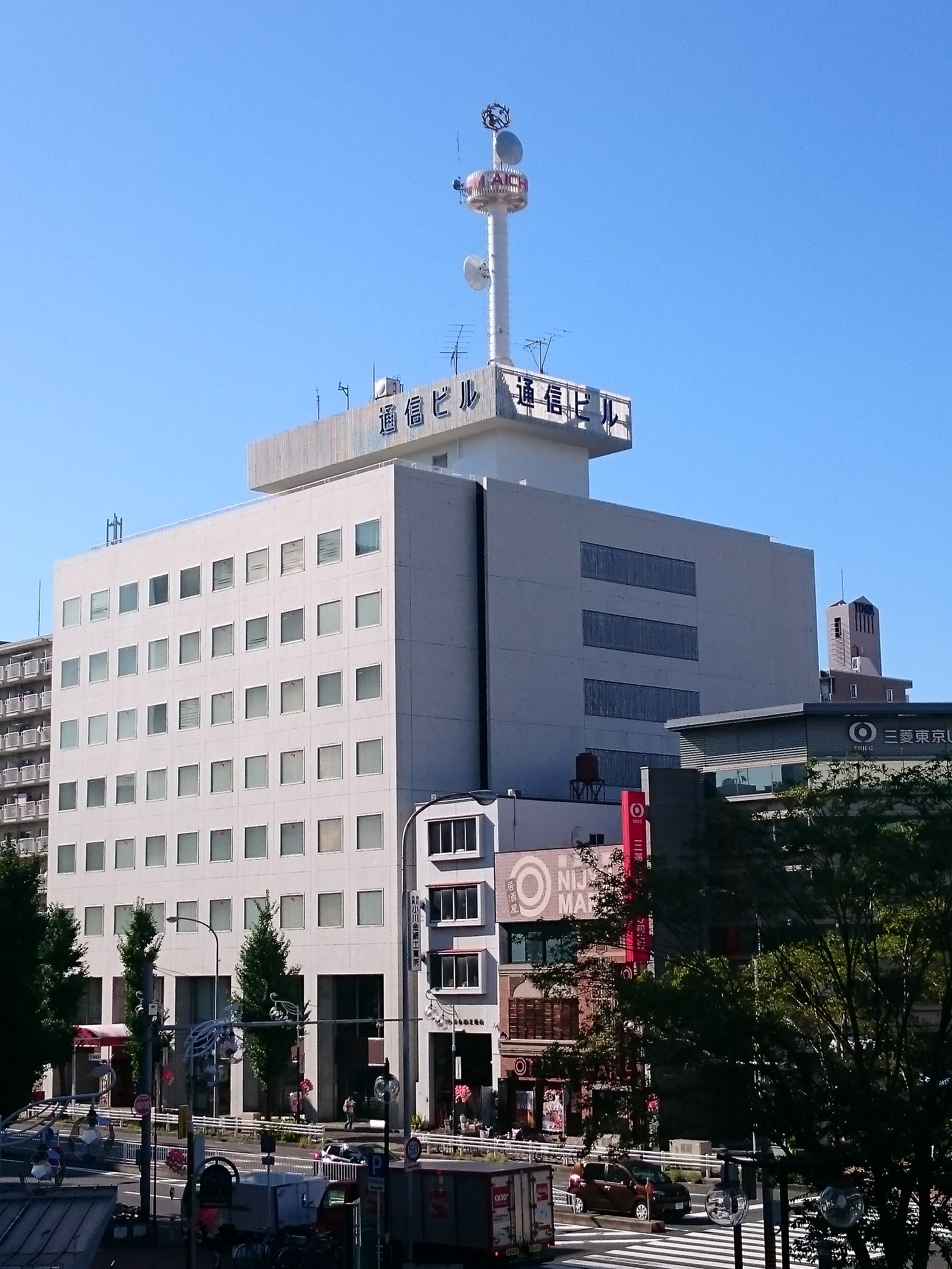 Nagoya Tsushin Building (名古屋通信ビル), located at 2-15-18 Chiyoda, Naka-ku, Nagoya, Aichi, japan